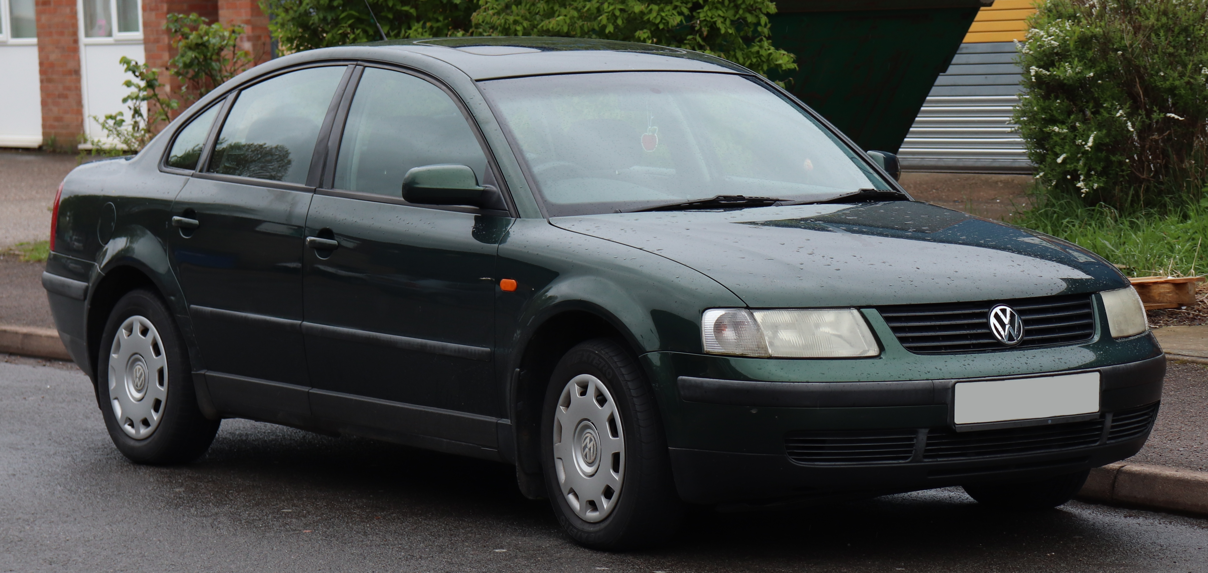 1998 Volkswagen Passat S TDi 1.9 Front Taken in Leamington Spa